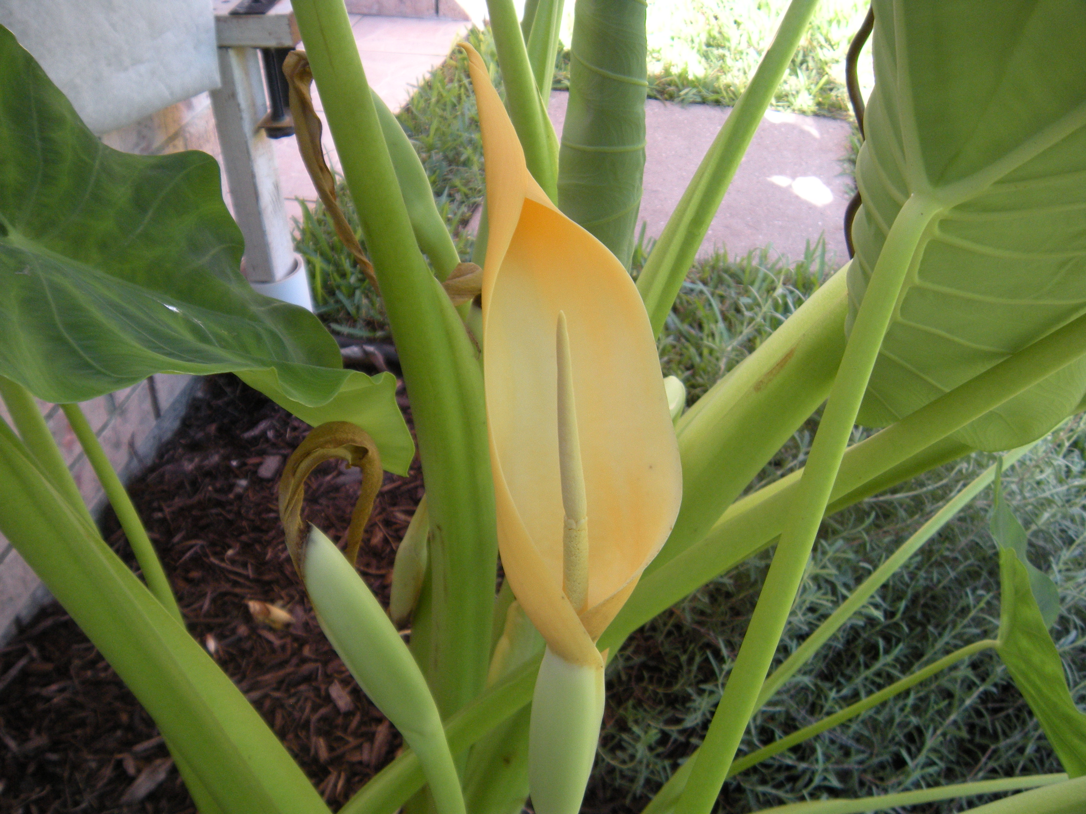 Blooming flower of the Colocasia esculenta (elephant ear)